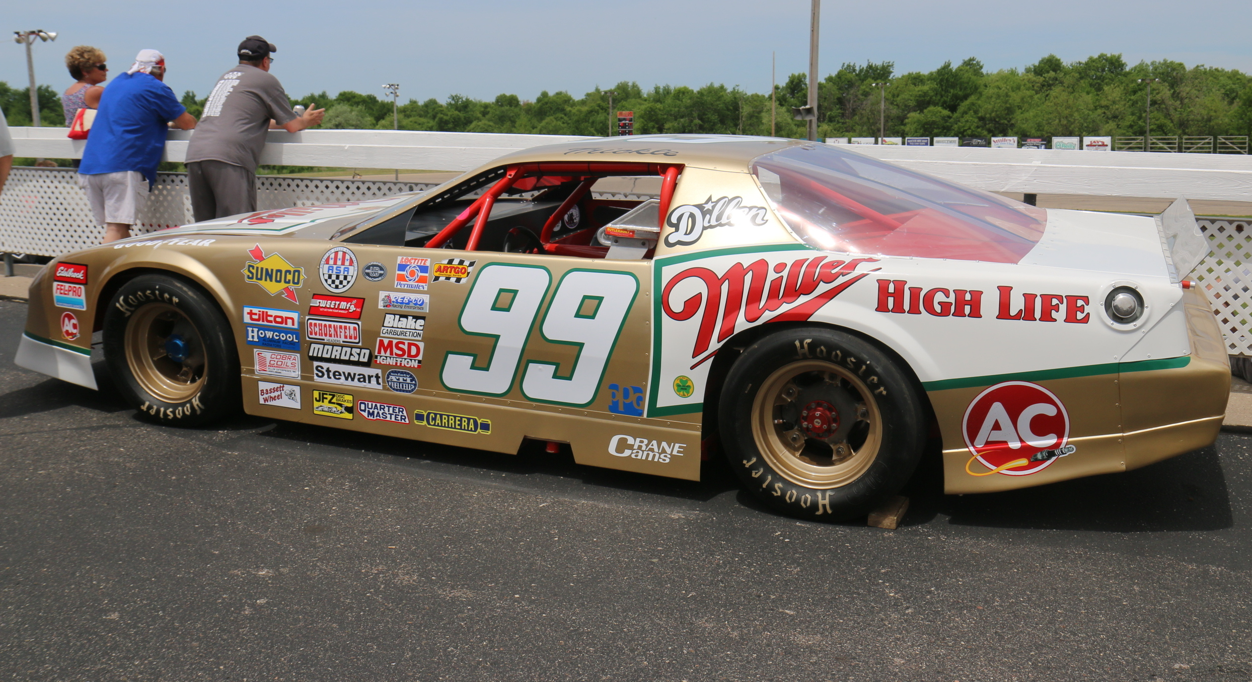 Dick Trickle's ASA car nicknamed Gold on display at Golden Sands Speedway's Dick Trickle race. The announcer said that its whereabouts were unknown until Ken Schrader said that he had it. It was repainted.